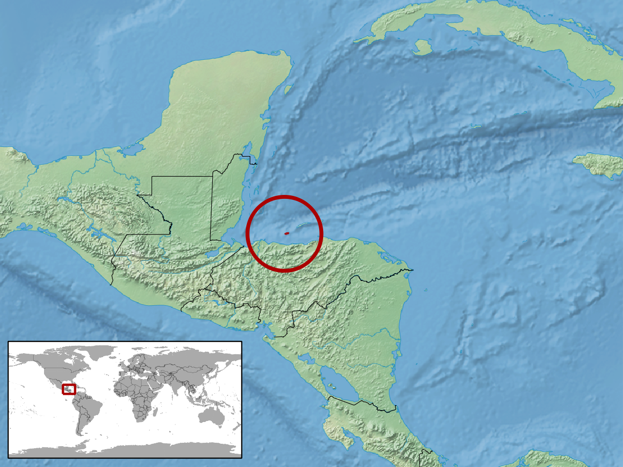 geographic distribution of Ctenosaura bakeri (Native: Honduras (Honduran Caribbean Is.))